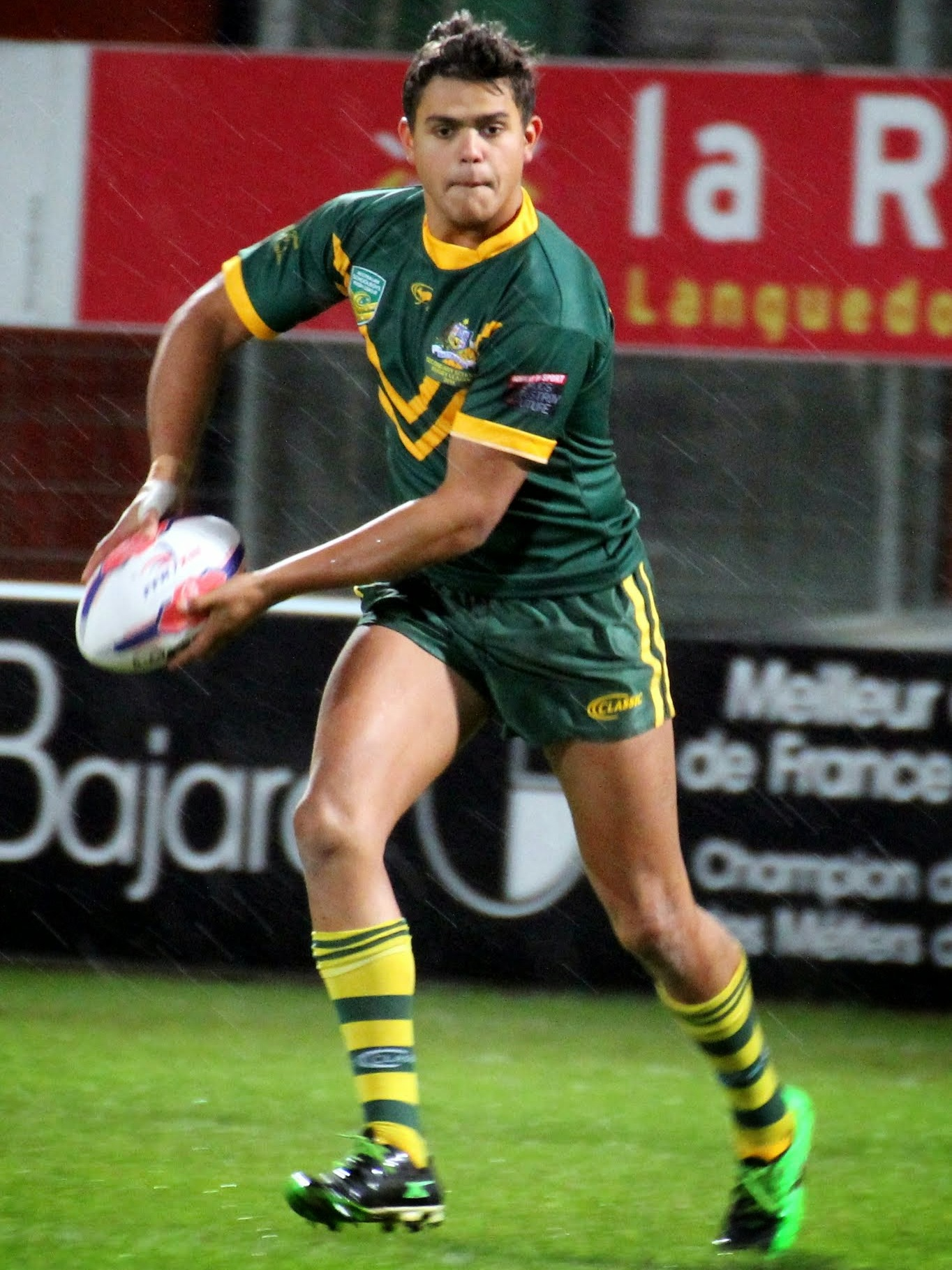 Latrell Mitchell